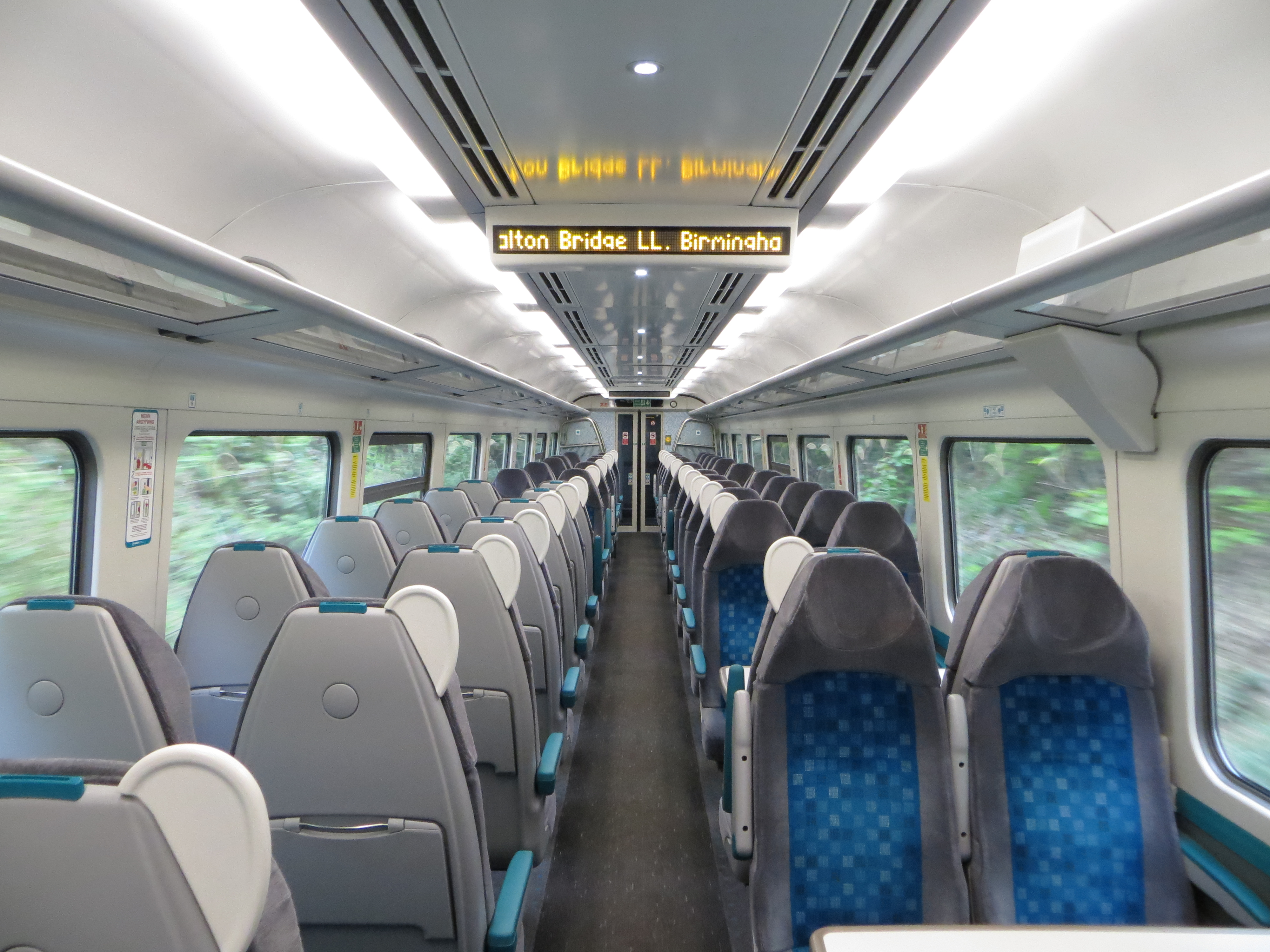 Refurbished Arriva Trains Wales Class 158 interior, between Aberystwyth and Borth. Looking good for a train that's over two decades old.